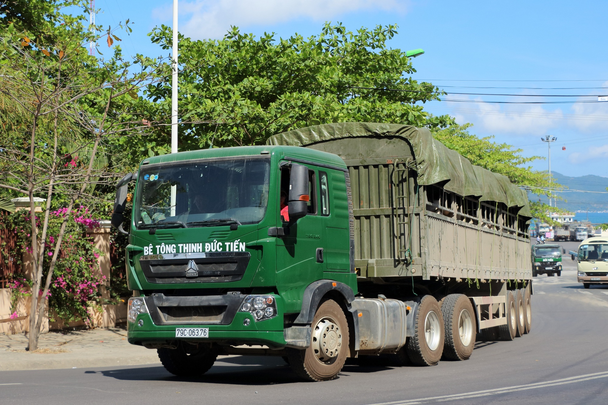 Howo T5G in Nha Trang, Vietnam